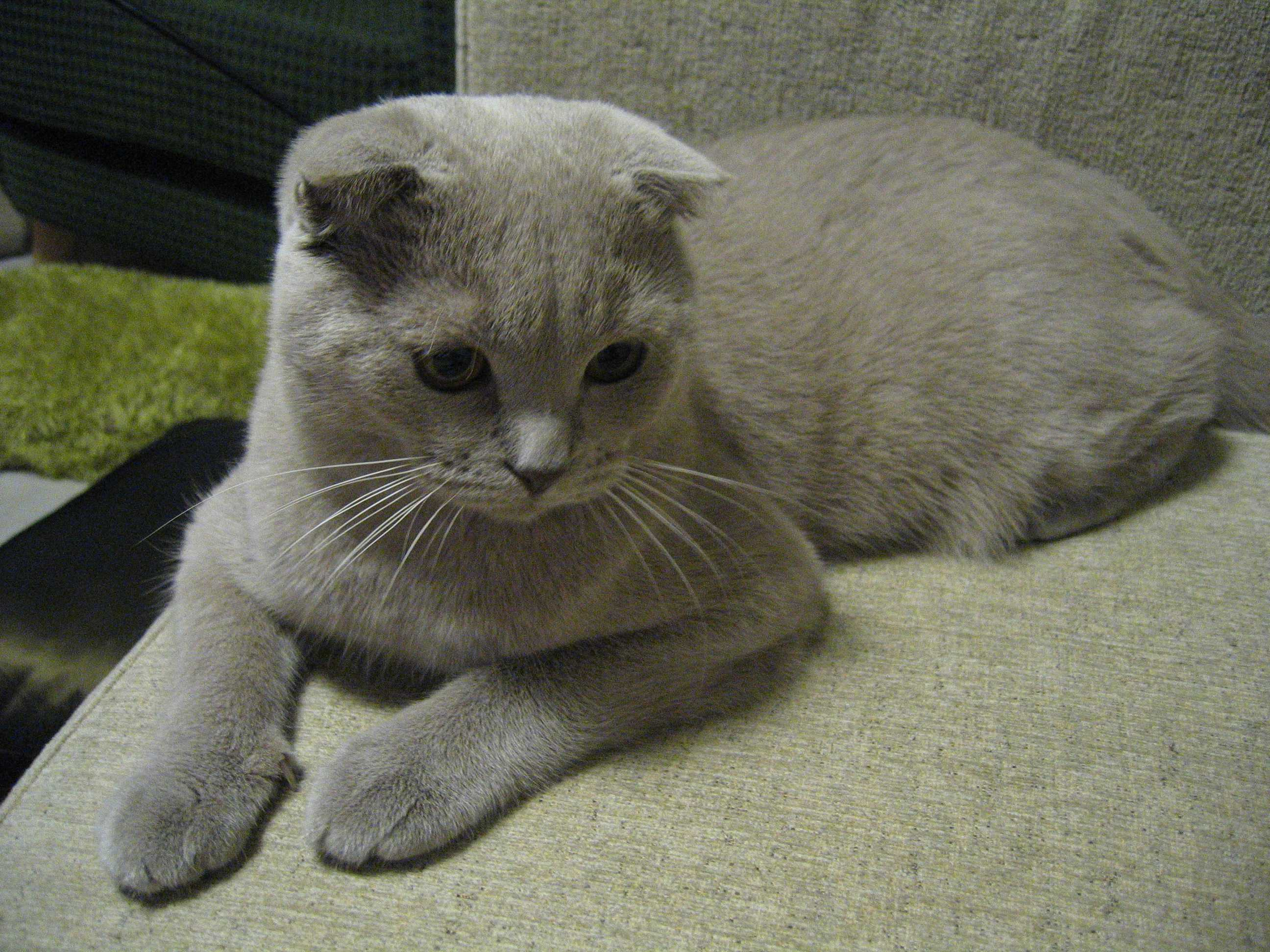 I took this picture, it is of my scottish fold cat.